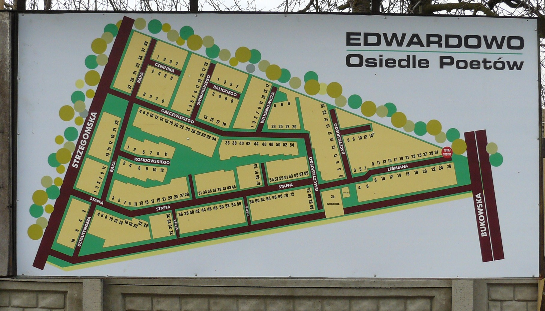 Plan of Poetow Distr., Poznan-Edwardowo.